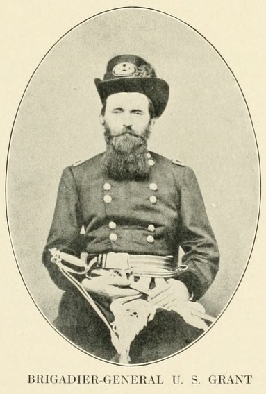 Union Brigadier General Ulysses S. Grant photographed at Cairo, Illinois